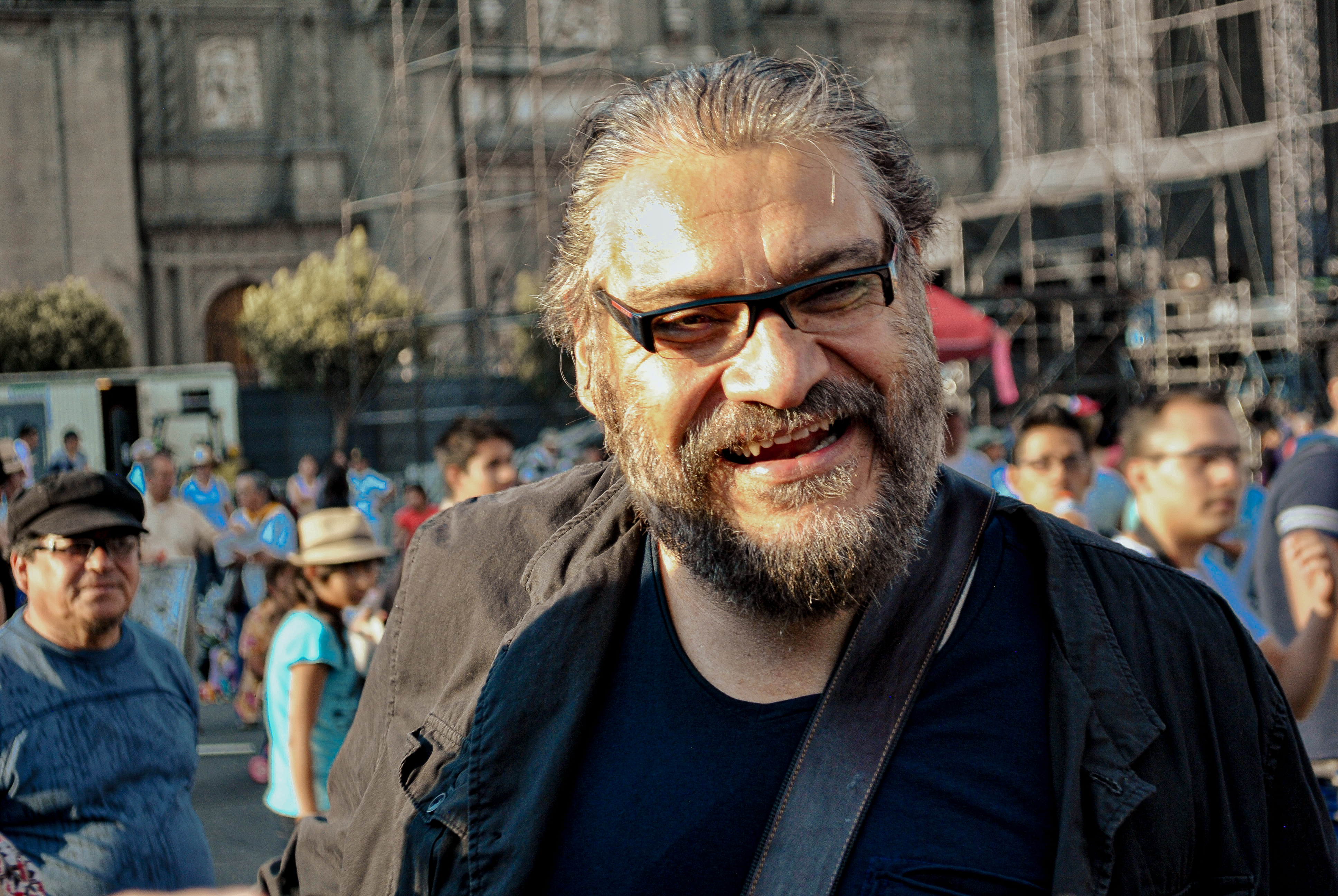 Mexican actor Joaquin Cosio in the Zocalo of Mexico City.